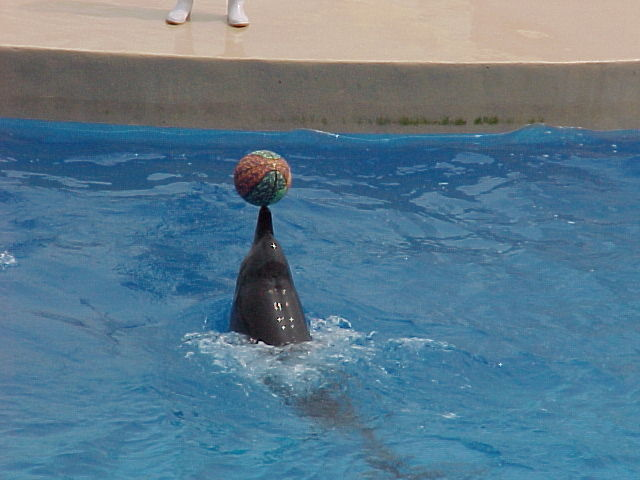 Dolphin show